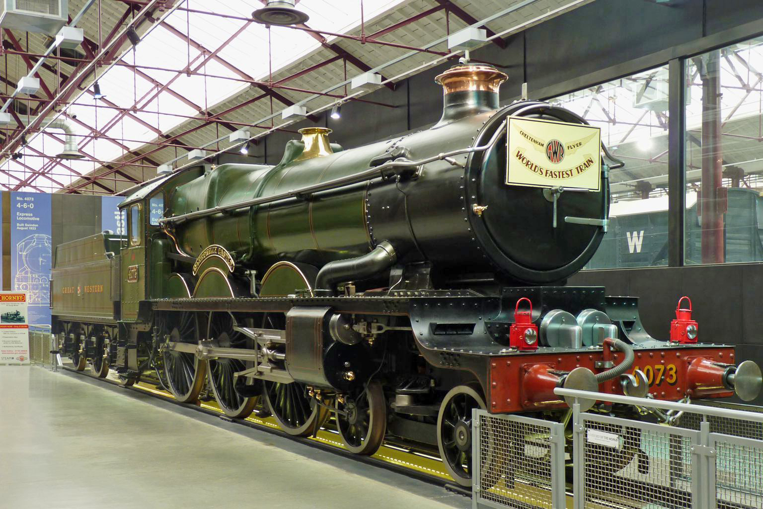 Cheltenham Flyer at STEAM Museum of the Great Western Railway in Swindon, England.